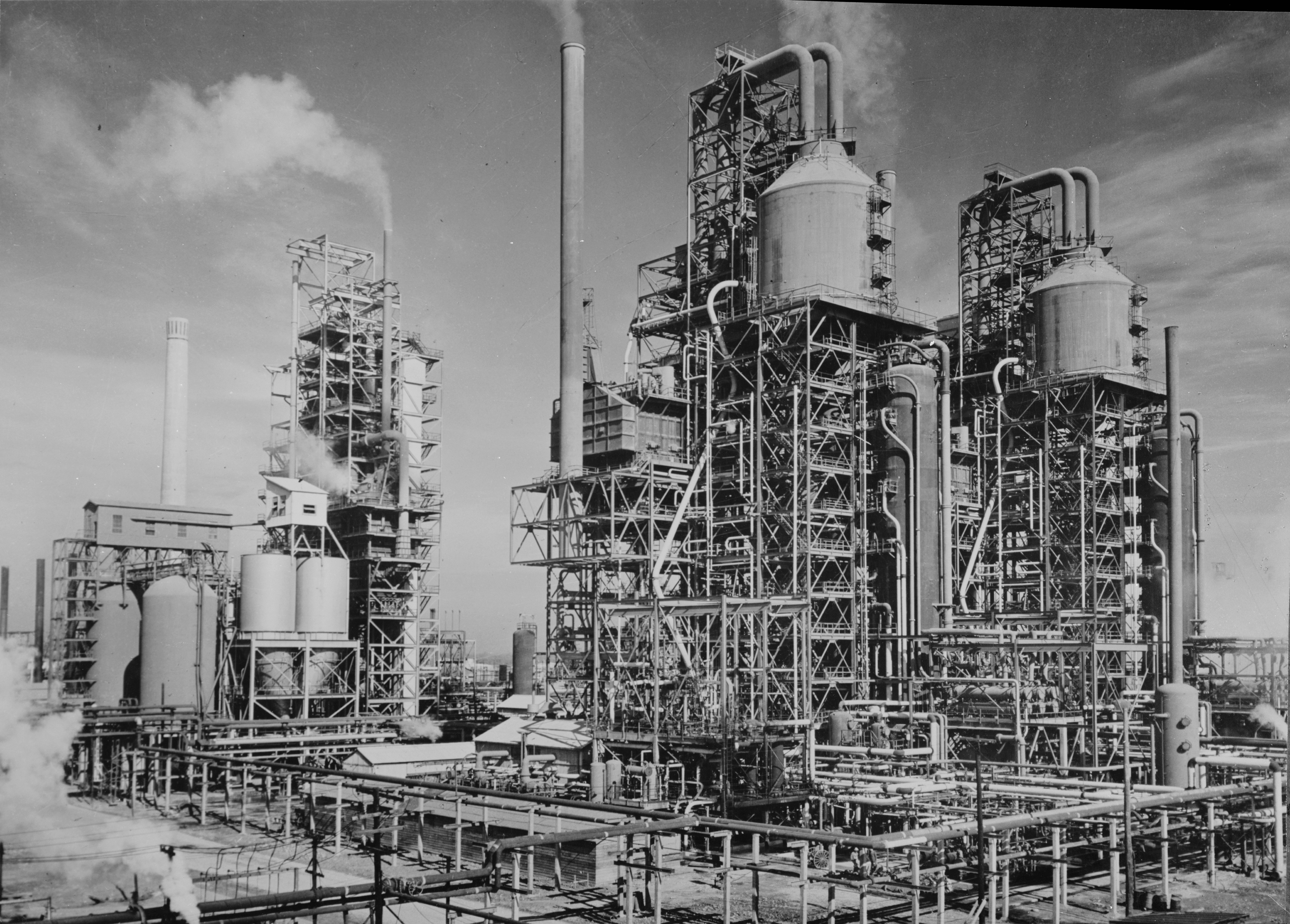 America's petroleum industries pour out fuel and lubricants for the United Nations. These three new catalytic oil "cracking" units are turning out gasoline for the new machines of war at the plant of a large U.S. refining company in the southern U.S. state of Louisiana. In the eight years of the development of the "cracking" process in producing gasoline, it is estimated that 1,000,000,000 barrels of crude oil have been saved by the oil industry. The "cracking" process subjects crude oil to heat and pressure by which the oil molecules are broken down and made to release more of their derivable elements. The drain of war on such gasoline producing units as these is shown by the fact that the U.S. has manufactured 180,000 planes since December 7, 1941, propelled by gasoline motors. For example, one U.S. Liberator four-motored bomber in a six-hour bombing run consumes 1,800 gallons of gasoline, enough to last the average U.S. civilian motorist from three to five years